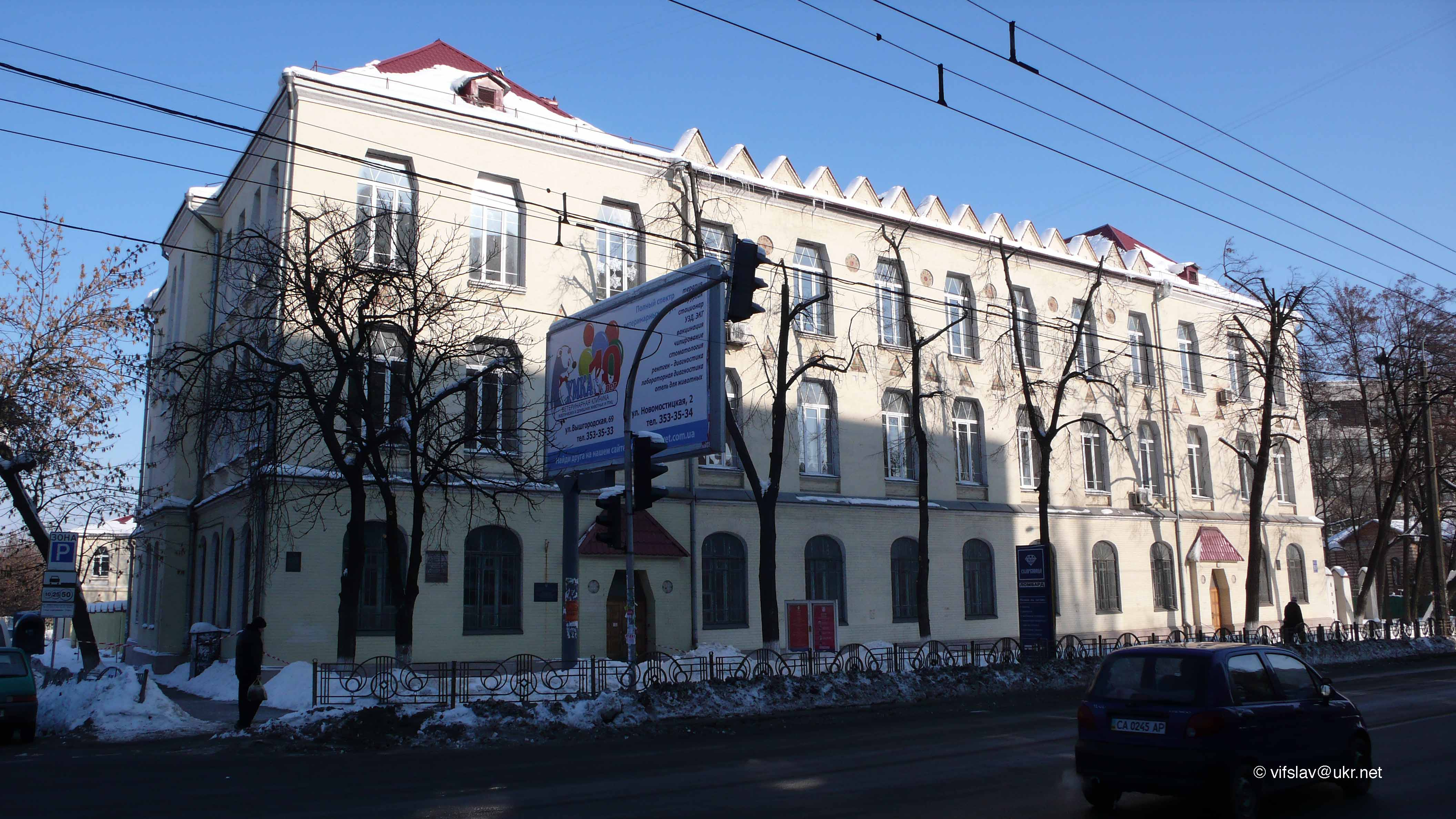 Building of Hrushevskyi College (nowadays part of Academy of Municipal Administration) in Kyiv, Ukraine